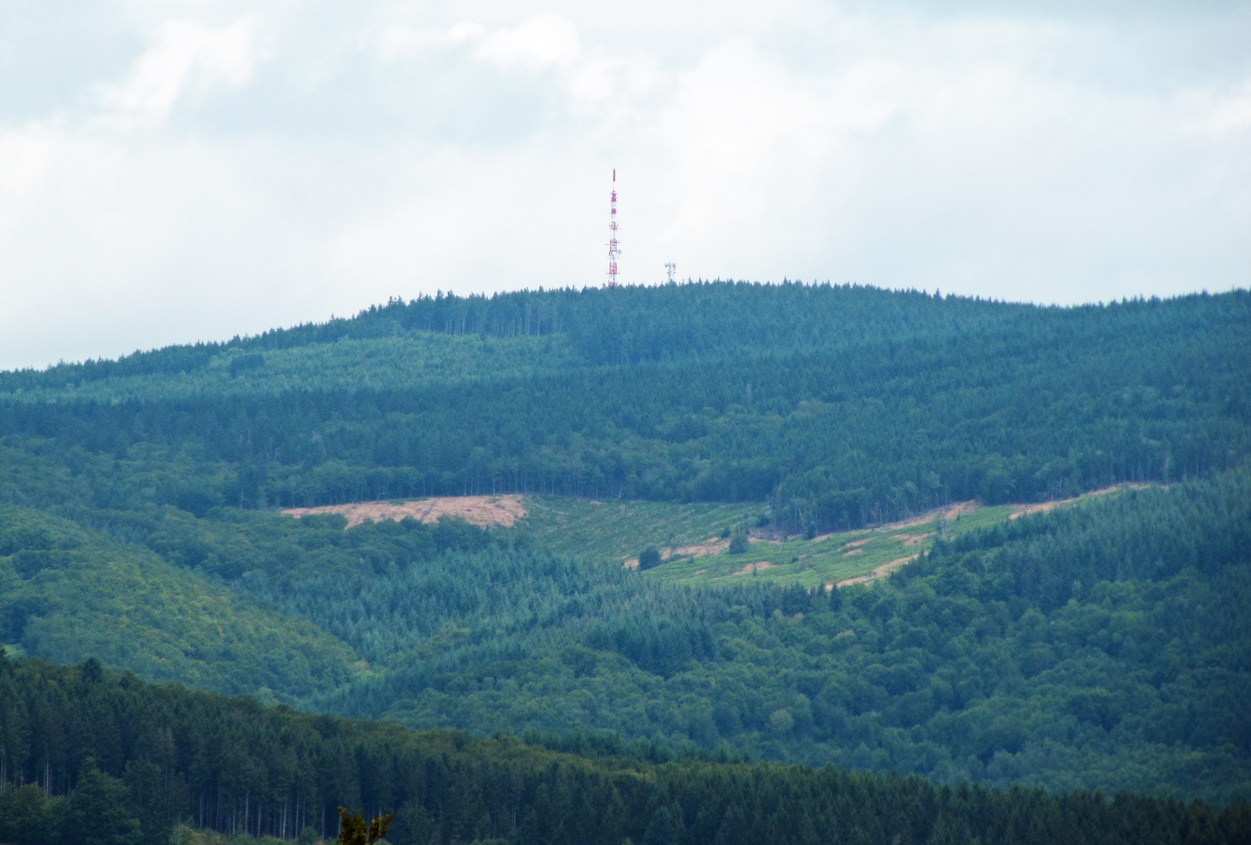 Haut Folin, Summit of Morvan montain range, taken from Mont Beuvray